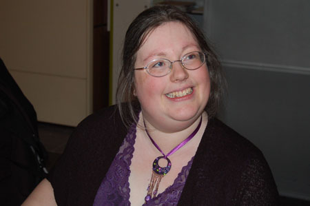 Australian author Tansy Rainer Roberts at the Convergence 2, Australian National Science Fiction Convention, Melbourne. Photographed by Catriona Sparks.